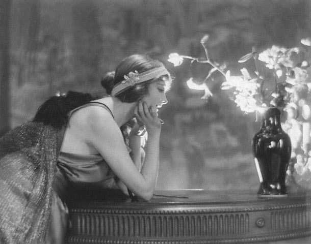 Jeanne Eagels (1890-1929), American silent film and Broadway stage actress in 1921, wearing a cape over a dress in tulle with an ostrich ruff by Louise Chéruit, Paris fashion designer